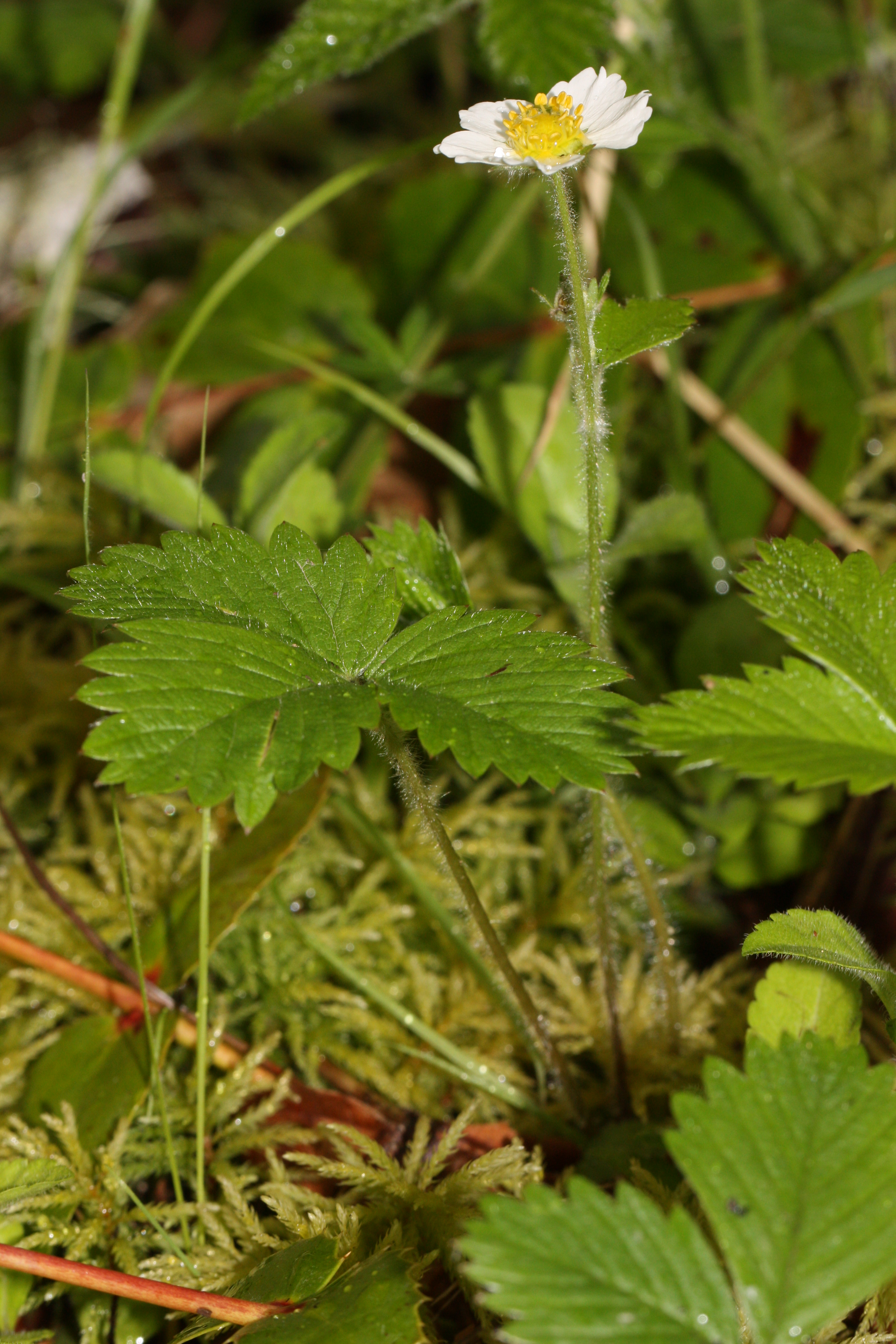 Woodland Strawberry, Wood Strawberry